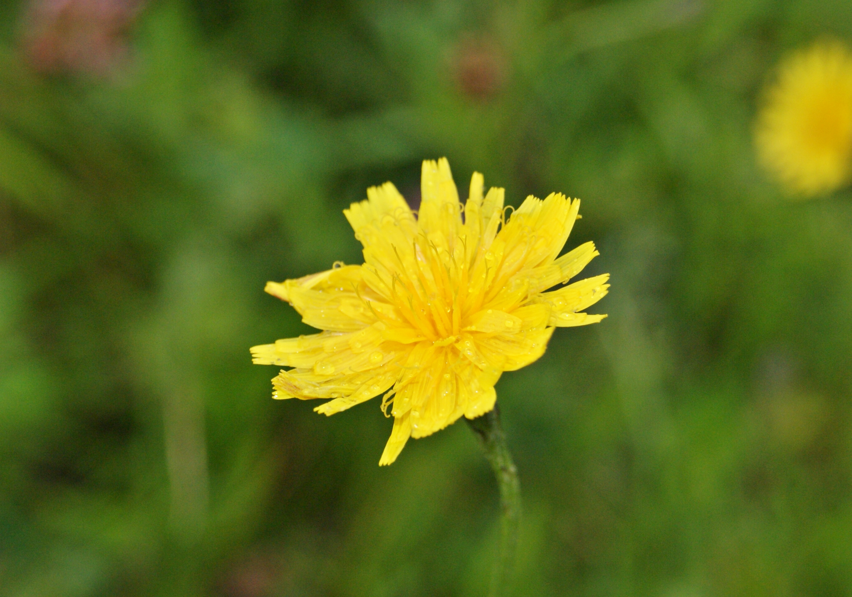 Scorzoneroides autumnalis (Syn.: Leontodon autumnalis), Germany.